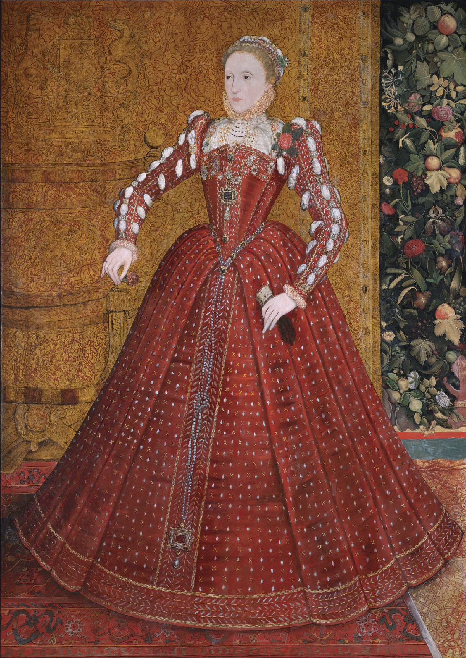 Queen Elizabeth I (1533-1603)